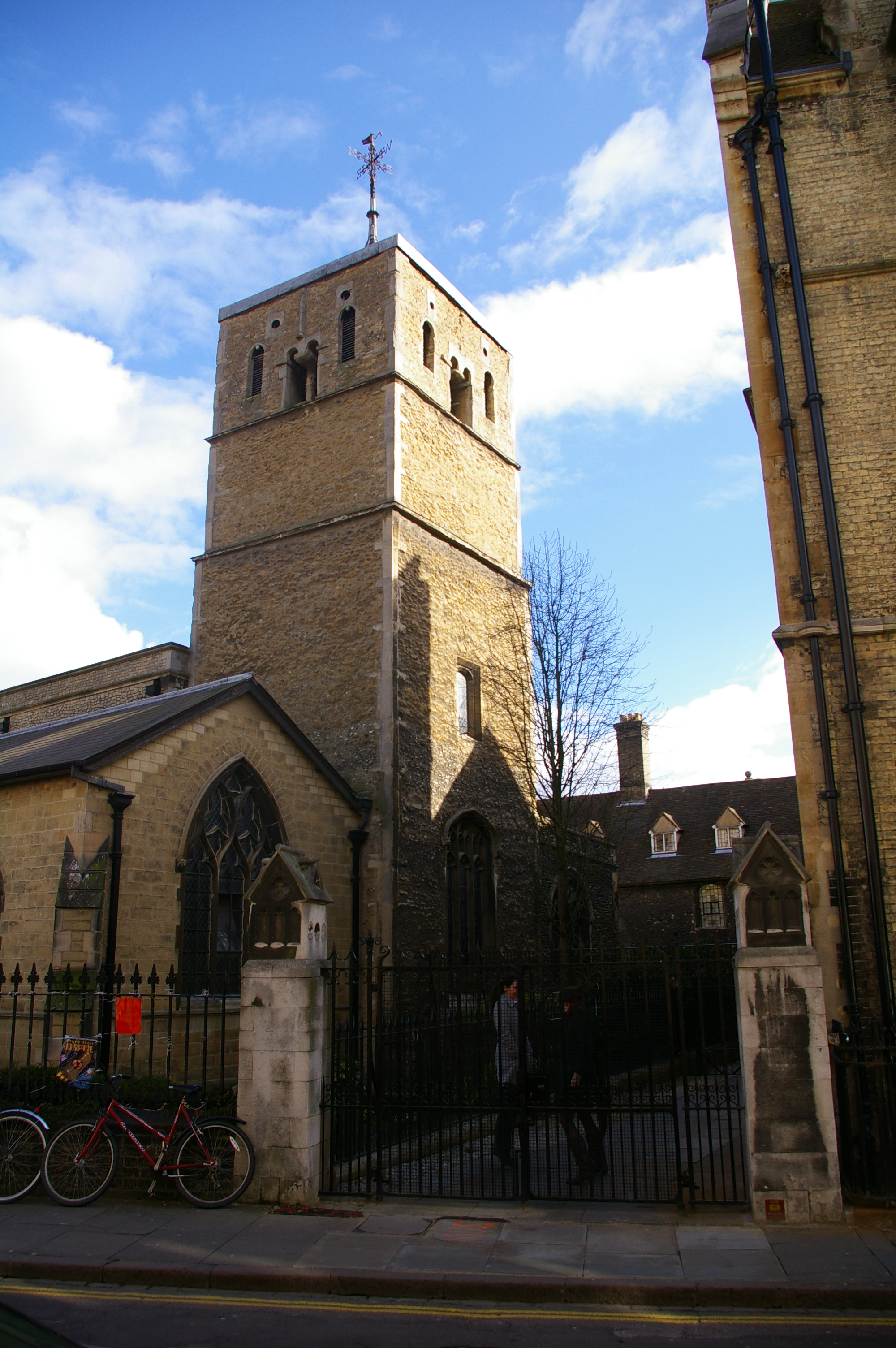 Southwest tower of St Bene't's parish church, Cambridge, England, seen from the northwest